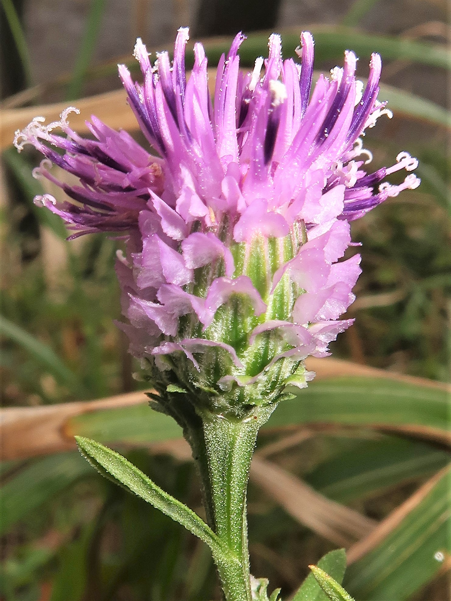 Saussurea pulchella, Noto Peninsula, Ishikawa pref., Japan